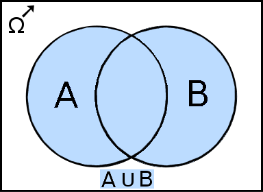 Union of sets